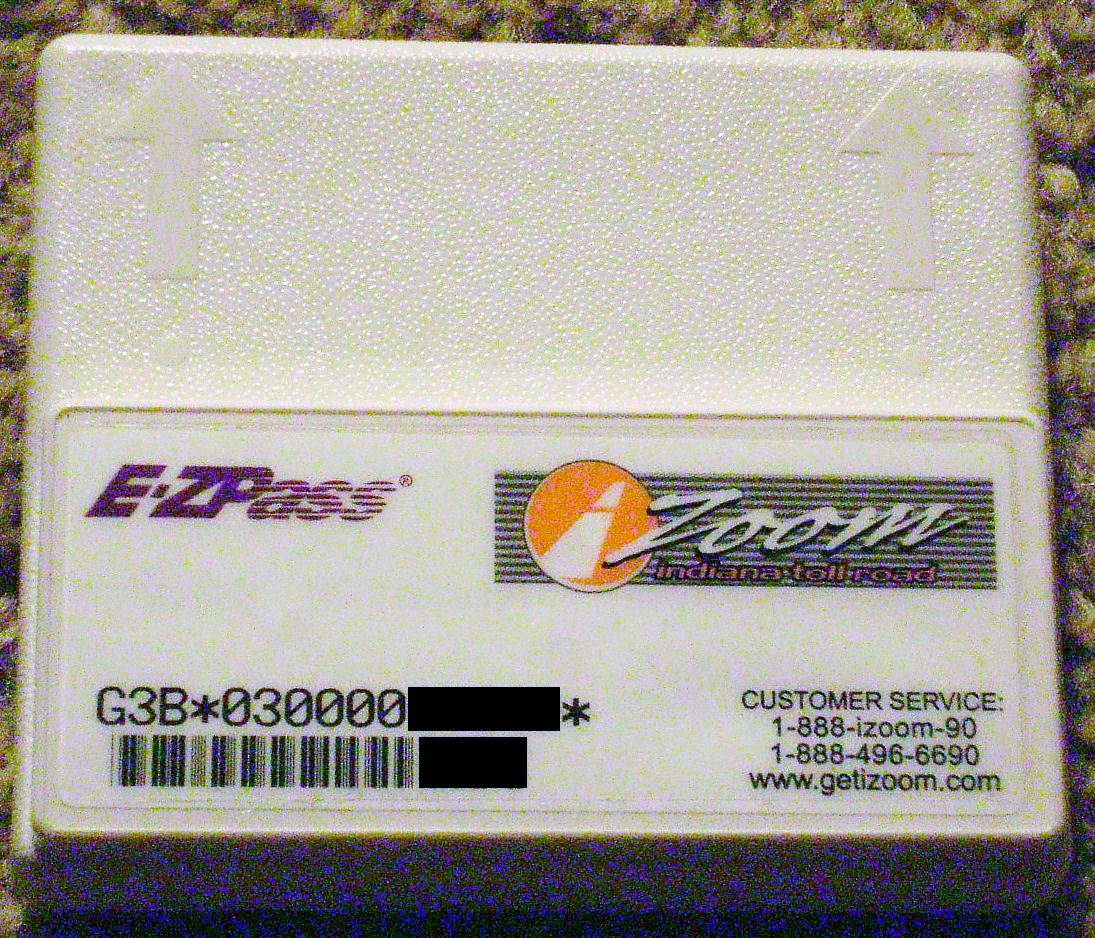 An I-Zoom electronic toll collection transponder unit, also compatible with the E-ZPass system. Several numbers have been blocked out for security purposes.